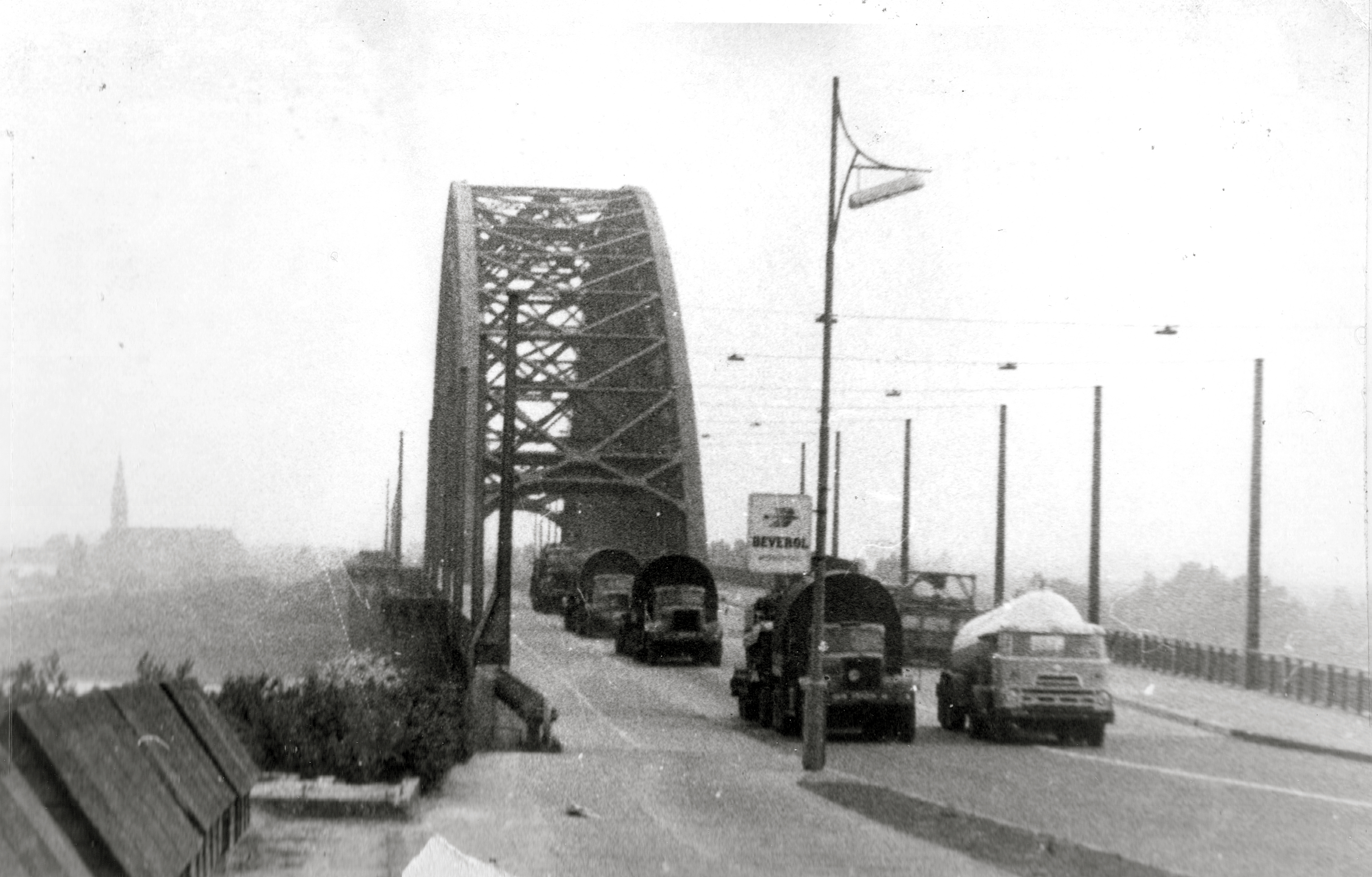 A convoy of DiamondT 980/981 Tanktransporters, in use by the Dutch Army, crossing the Waalbridge at Nijmegen, The Netherlands. Picture taken in the late sixties.